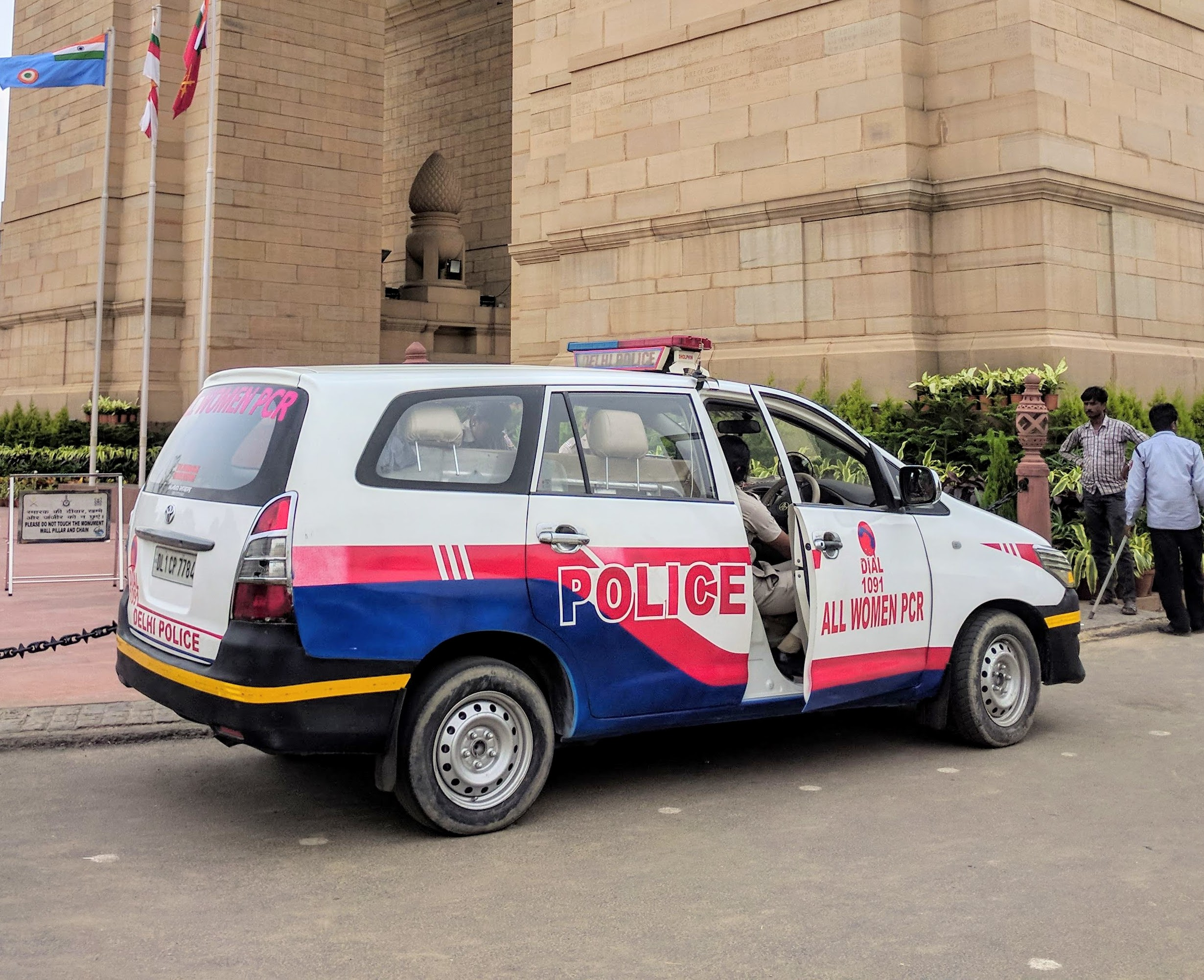 A Delhi Police All Women PCR vehicle. The car is a Toyota Innova. At India Gate, New Delhi.